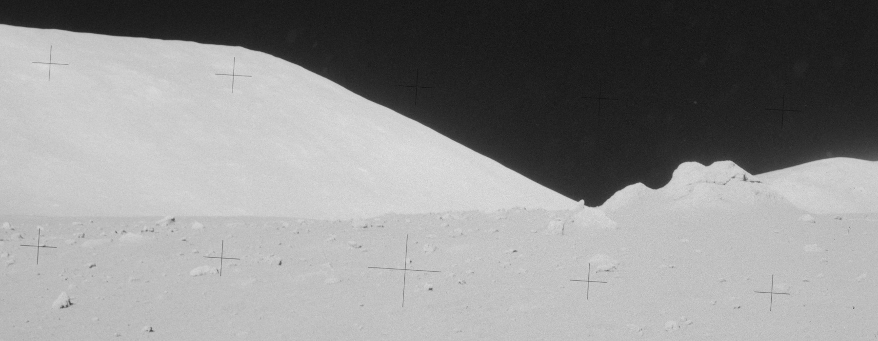 Large boulder at right is a block of ejecta on the rim of Sherlock crater, within the Taurus-Littrow valley on the moon. The South Massif is in the background. The Apollo 17 astronauts took this photo from the lunar roving vehicle as they drove near the north rim of Sherlock on the third EVA of the mission.